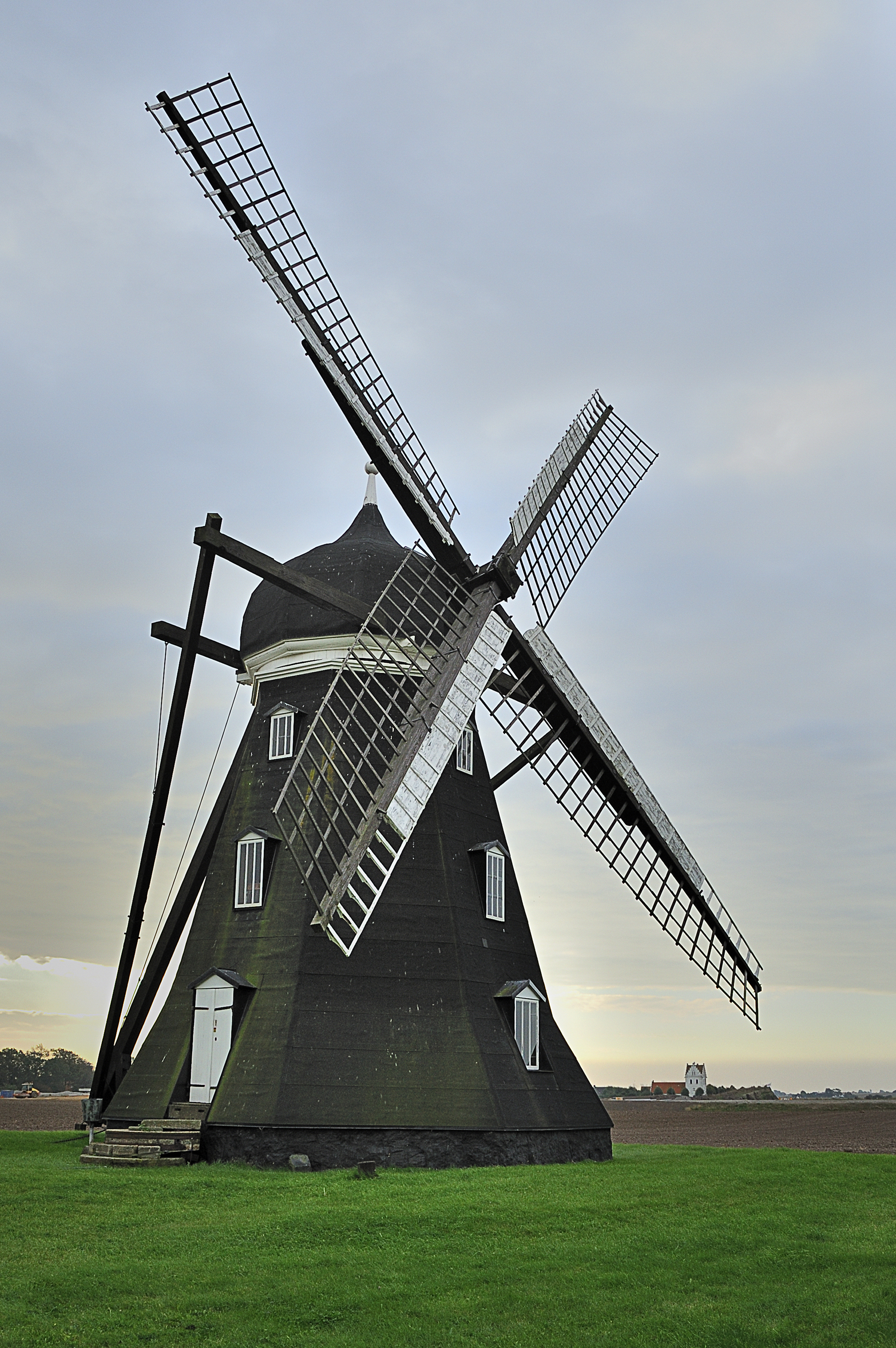 Skegrie windmill in Trelleborg municpality, Sweden.